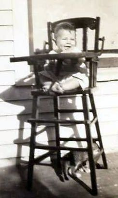 Baby in antique wooden high chair